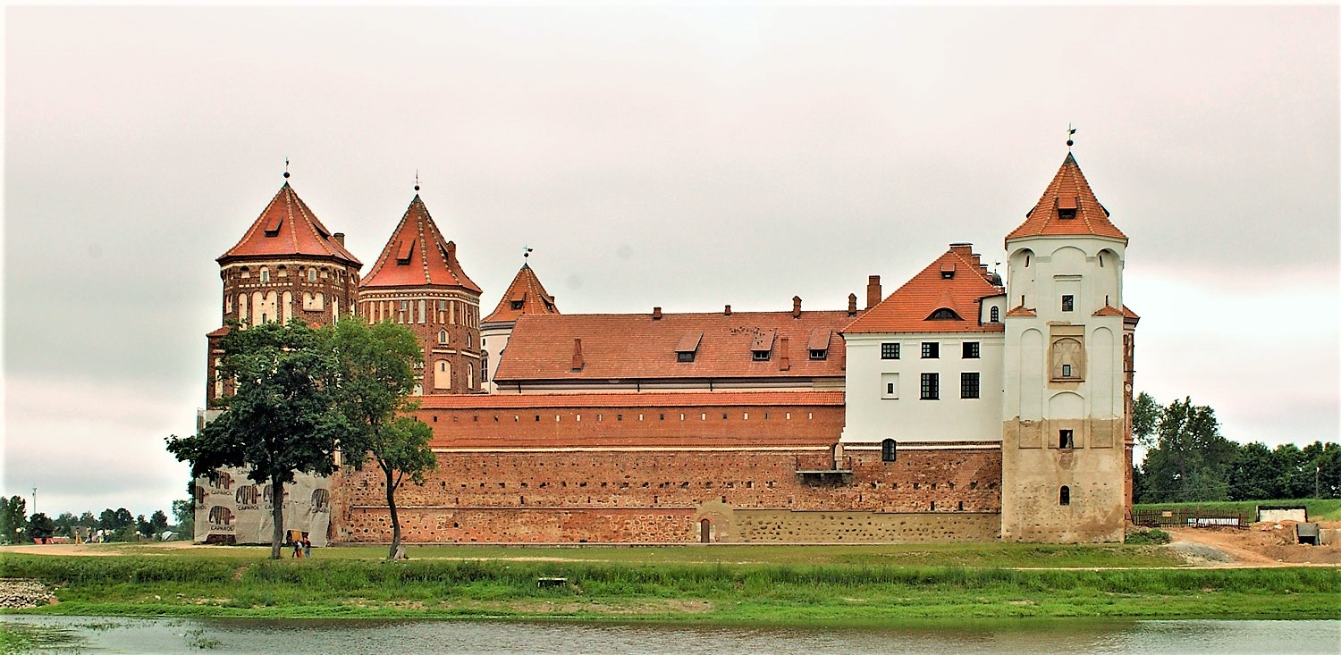 Mir Castle Complex, Belarus